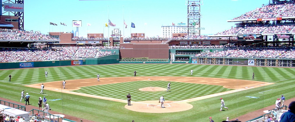 Citizens Bank Park Philadelphia, PA